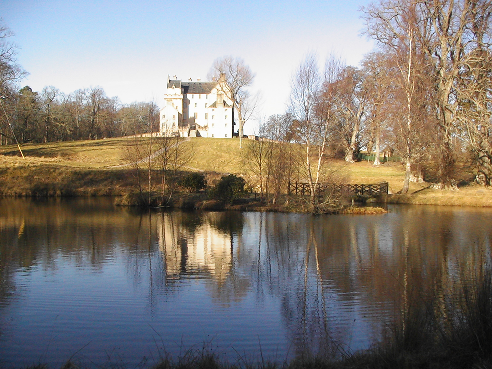 Castle Grant